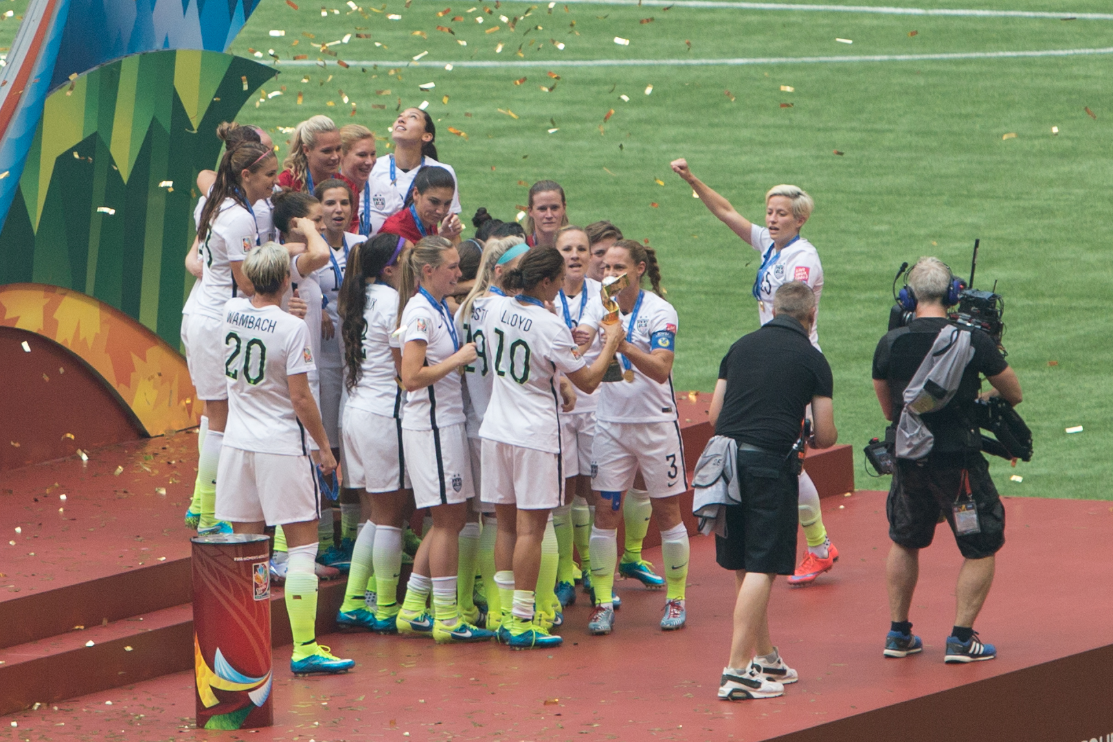 Celebrating with the Cup